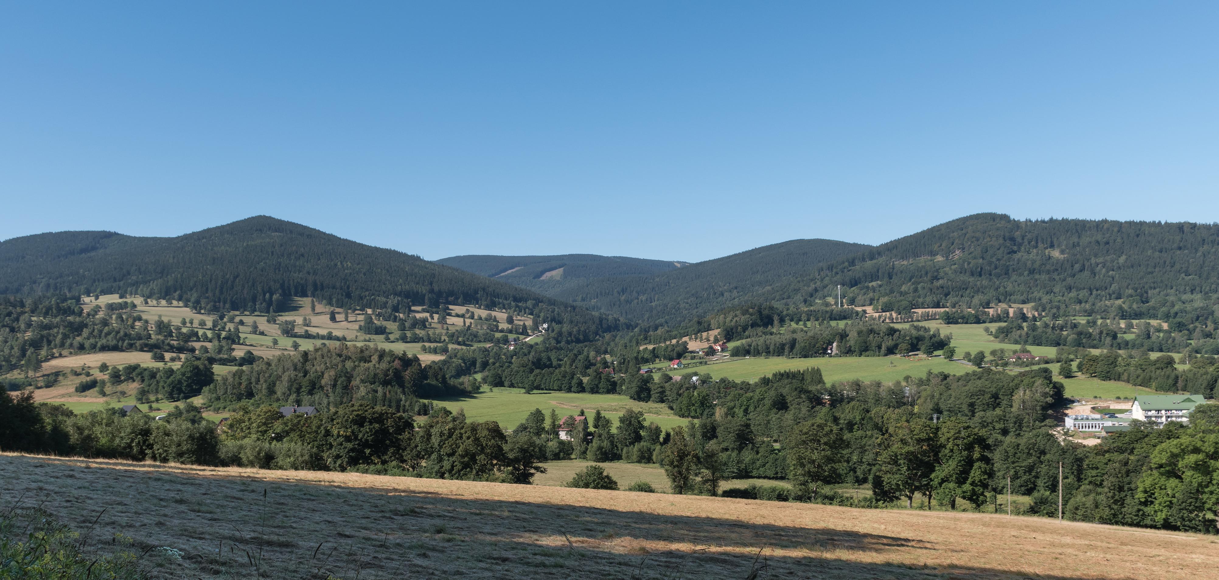 Śnieżnik Mountains, Sudetes